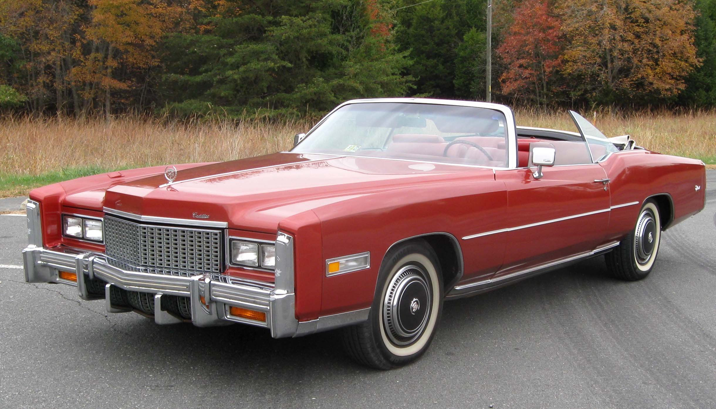 1976 Cadillac Eldorado convertible photographed in Manassas, Virginia, USA.